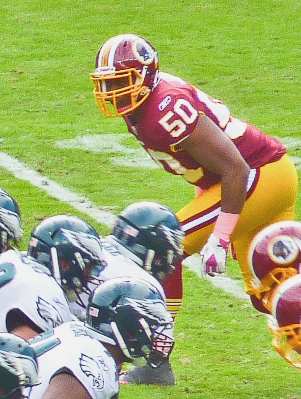 Rob Jackson playing against the Philadelphia Eagles in the 2011 season.